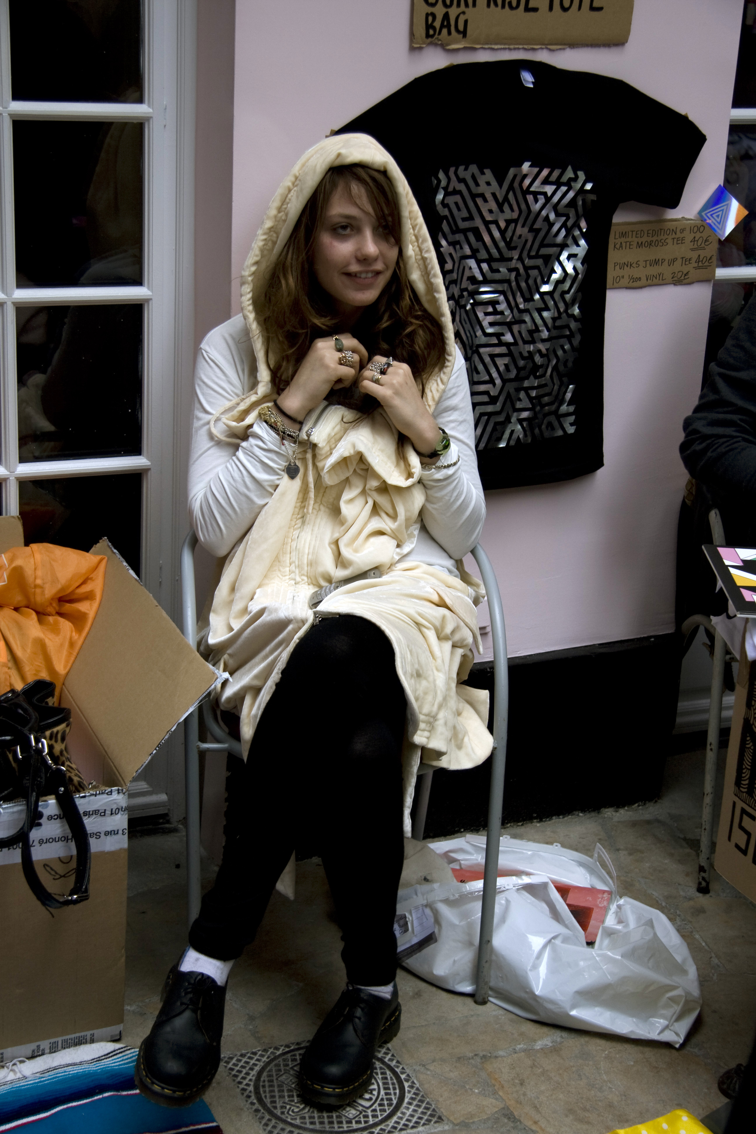 Cory Kennedy, American fashion personality